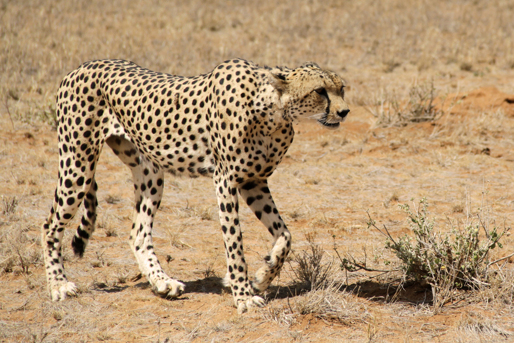 Male cheetah